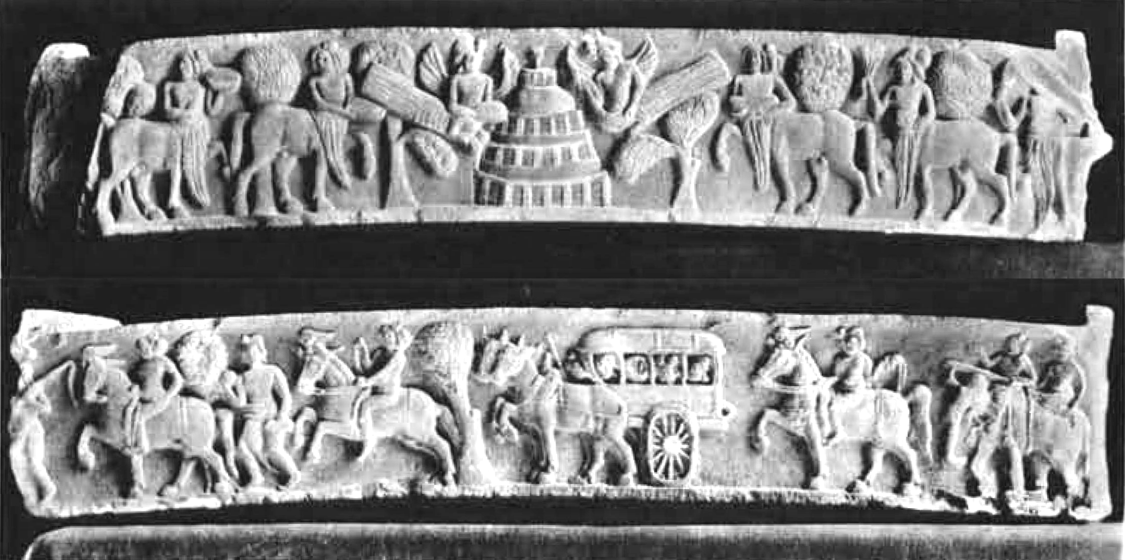 Centaur architrave Kankali Tila Mathura 100 BCE